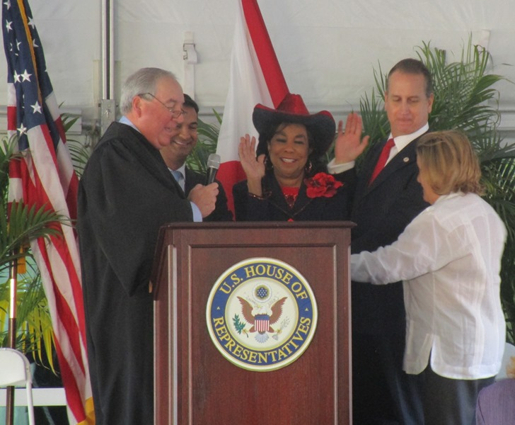 Chief Judge K. Michael Moore, swearing in Members of Congress Carlos Curbelo, Frederica Wilson, Mario Diaz-Balart, and Ileana Ros-Lehtinen.